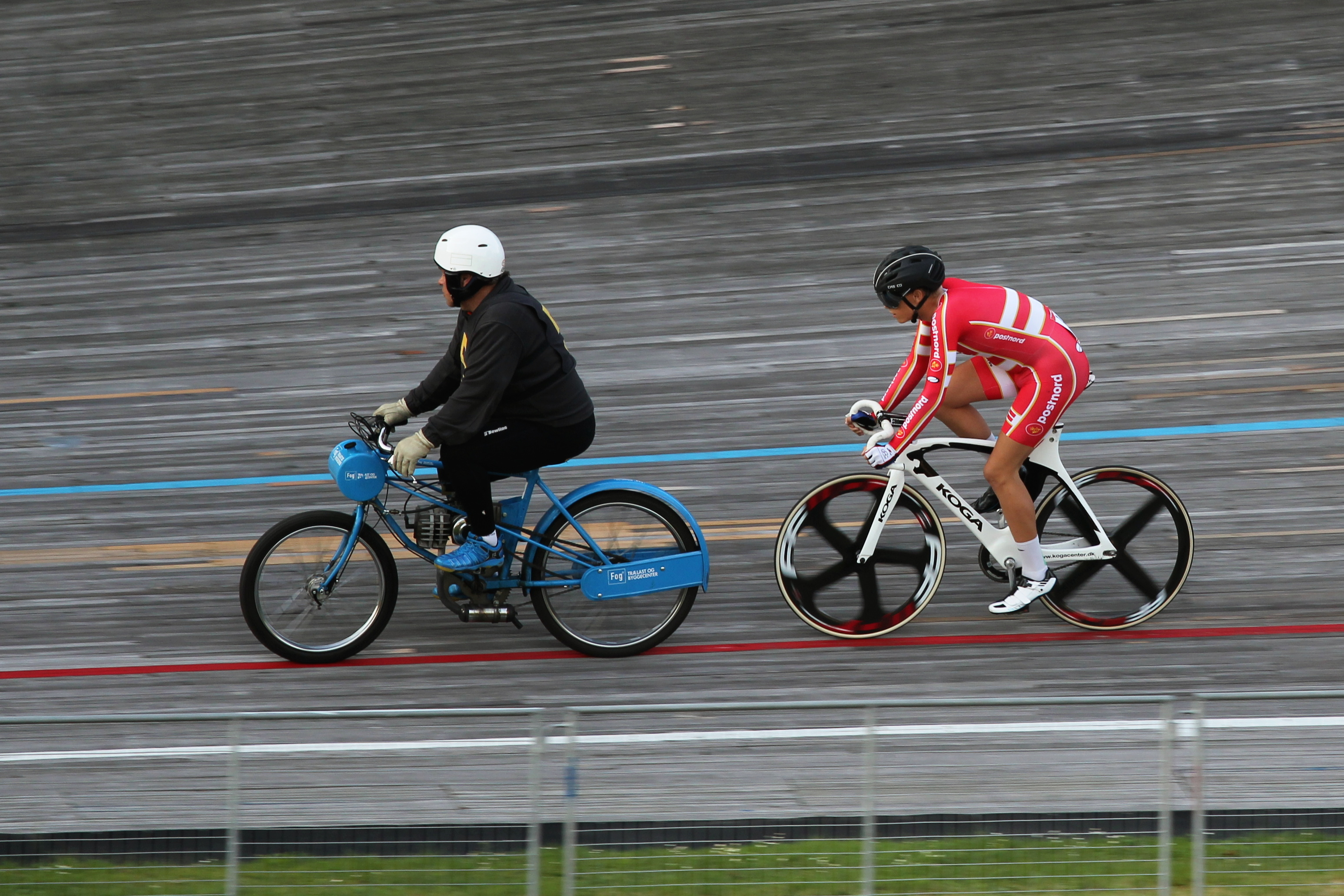 UEC Derny European Championship 2015 - 3rd heat, 60 laps / 20 km, Rider: Martin Frank (Denmark), Pacer: Gert Frank (Denmark)